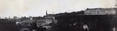 Scan d'une partie de carte postale de l'orphelinat de Meudon Fin XIXe siècle ou début XXe